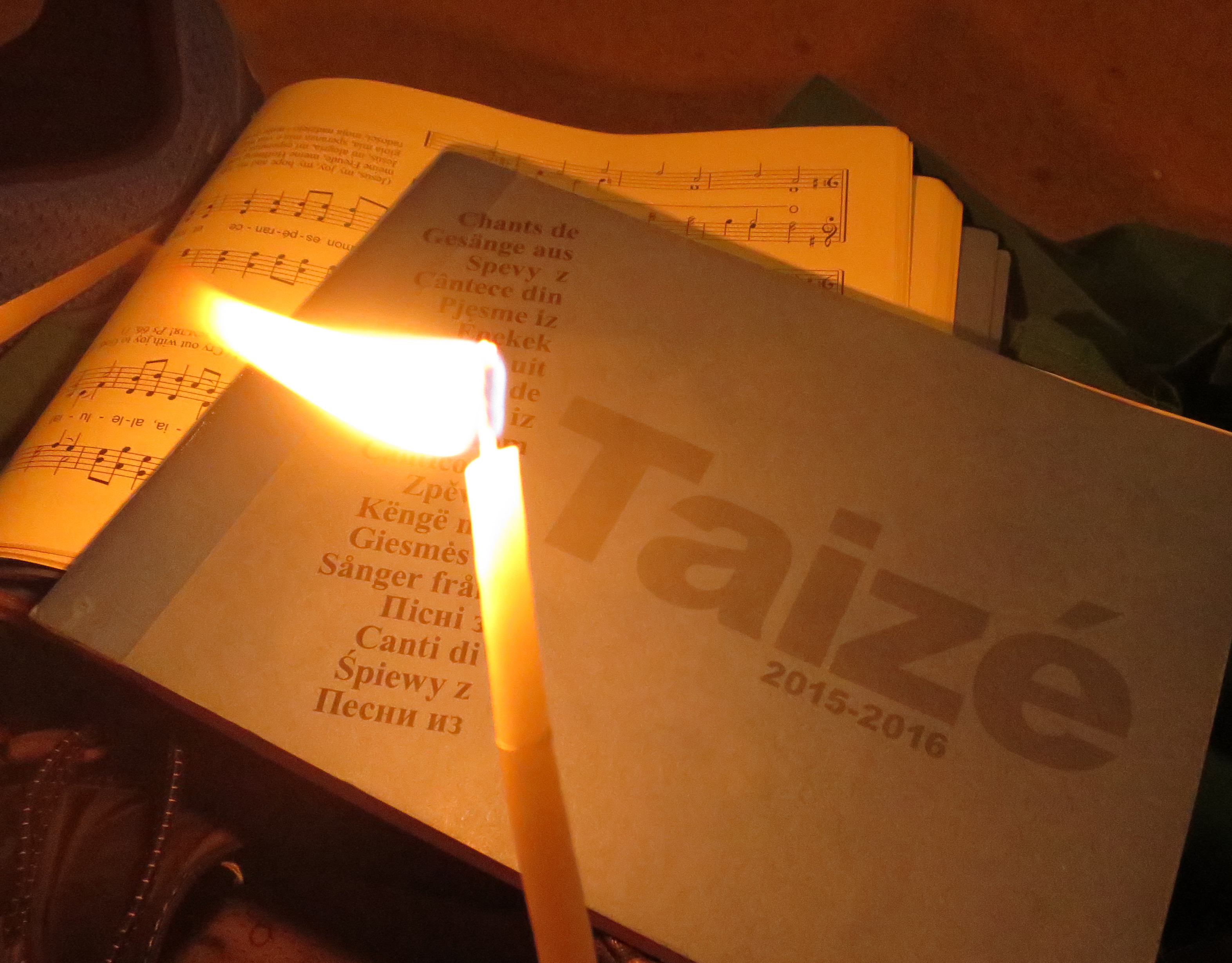 songbook during the saturday evening prayer with lighted candle of the saturday evening prayer